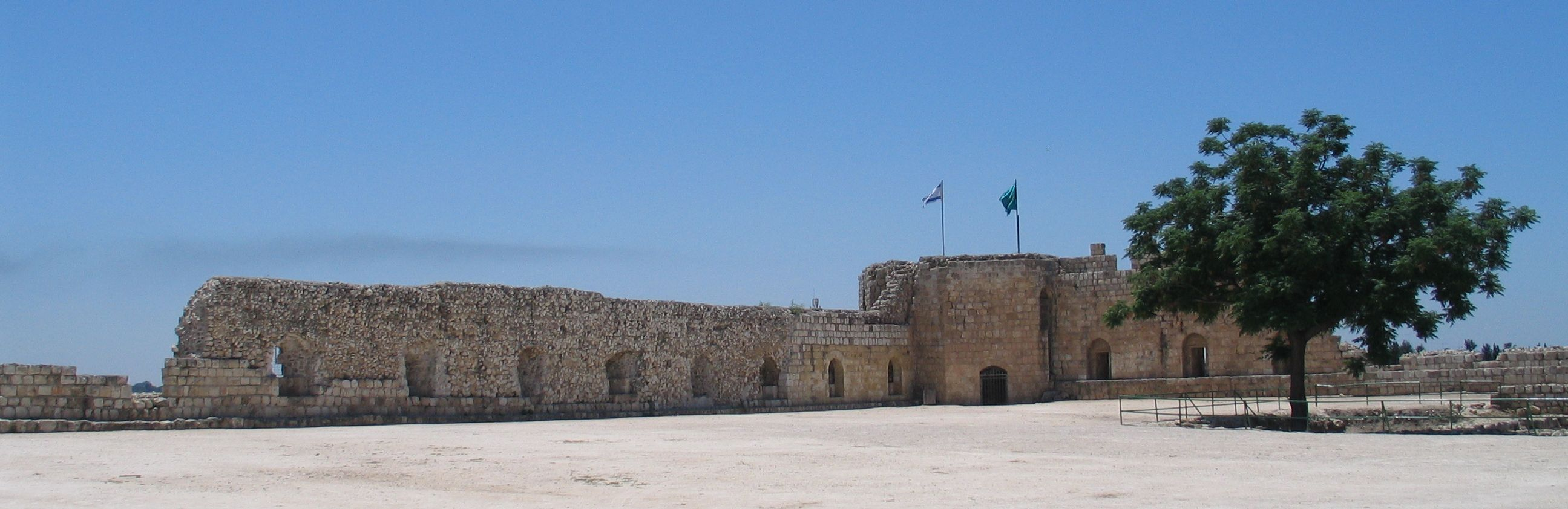 Binar Bashi fortress, Tel Afek, Yarkon national part, Israel.